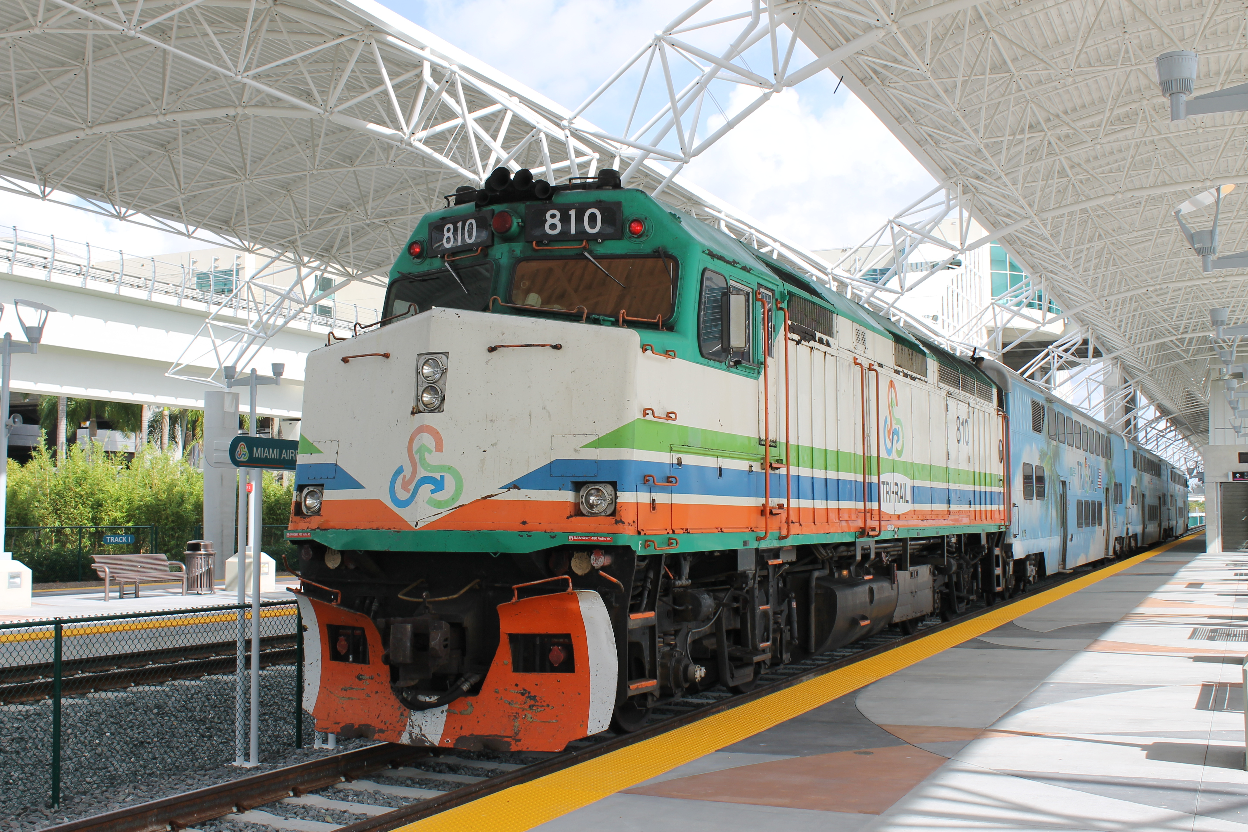 a Tri-Rail train hauled by a class F40PHL-2 diesel locomotive at the Miami Airport train station